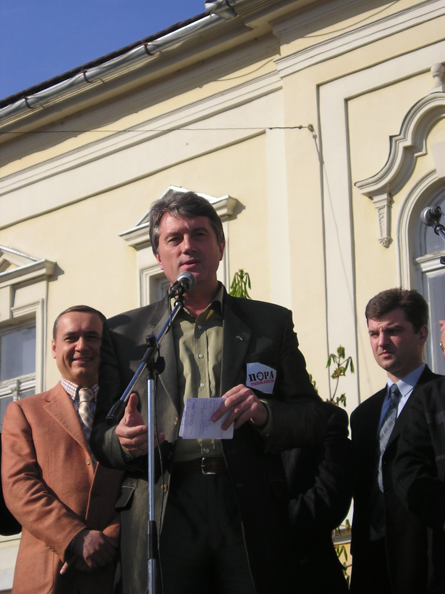 Viktor Yushchenko at the meeting in support of Viktor Baloha for Mukacheve mayoral election on 16 April 2004, Mukacheve, Ukraine